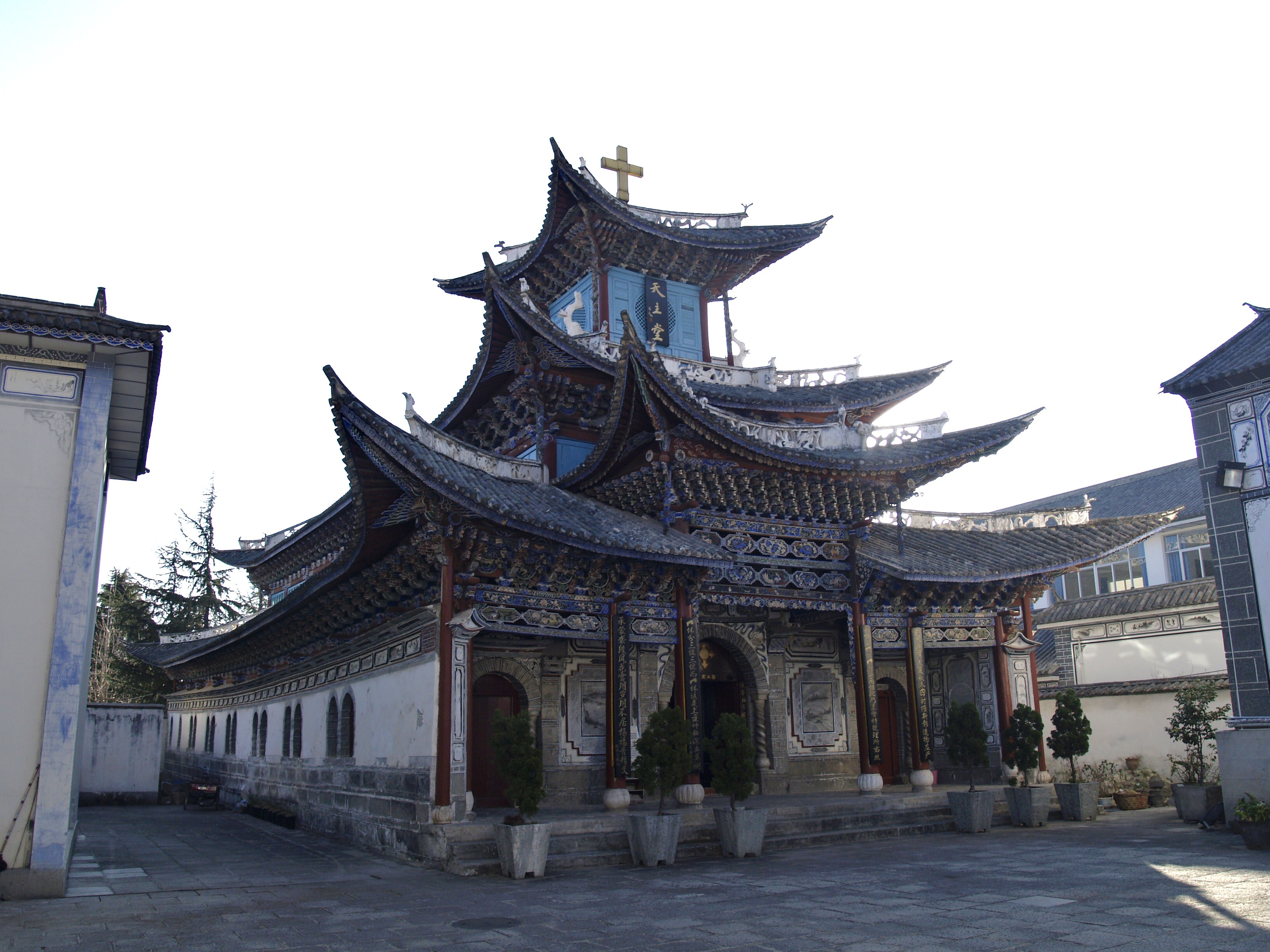 Dali Catholic Church exterior